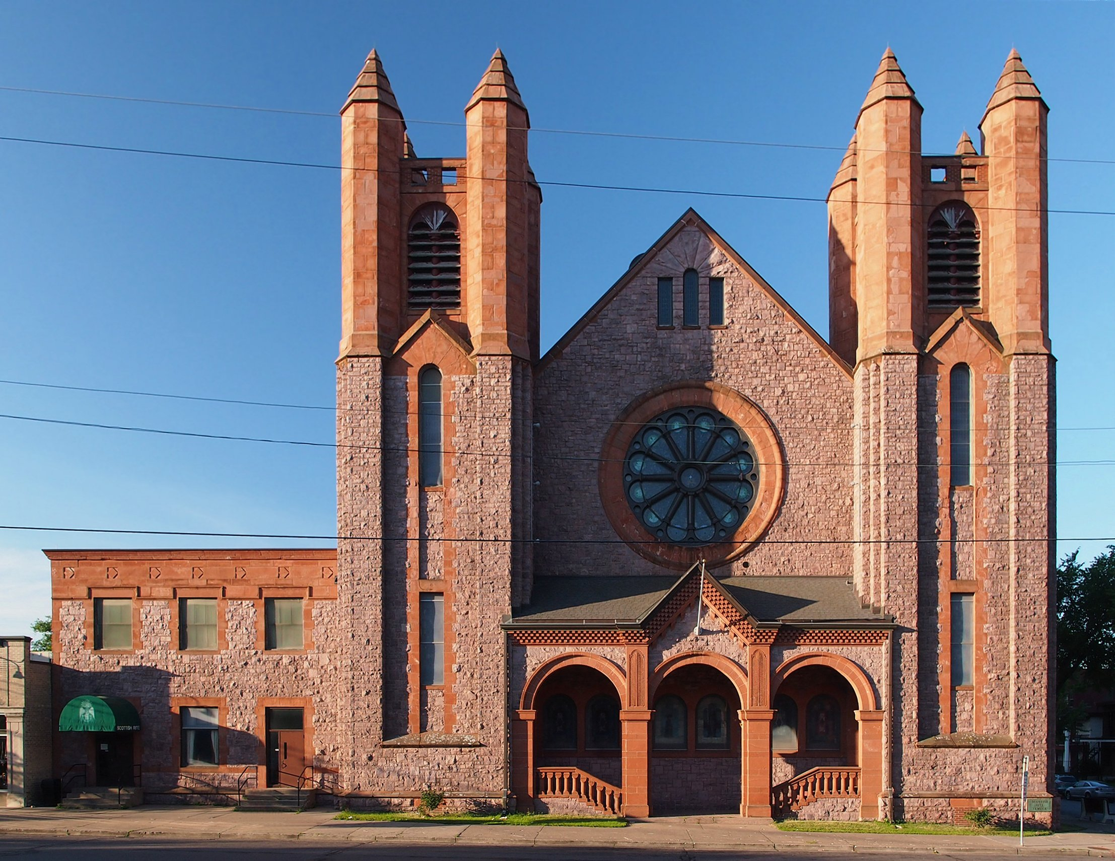 Minneapolis Scottish Rite Temple (formerly the Fowler Methodist Episcopal Church), 2011 Dupont Ave S, Minneapolis, Minnesota, USA. Viewed from the north.